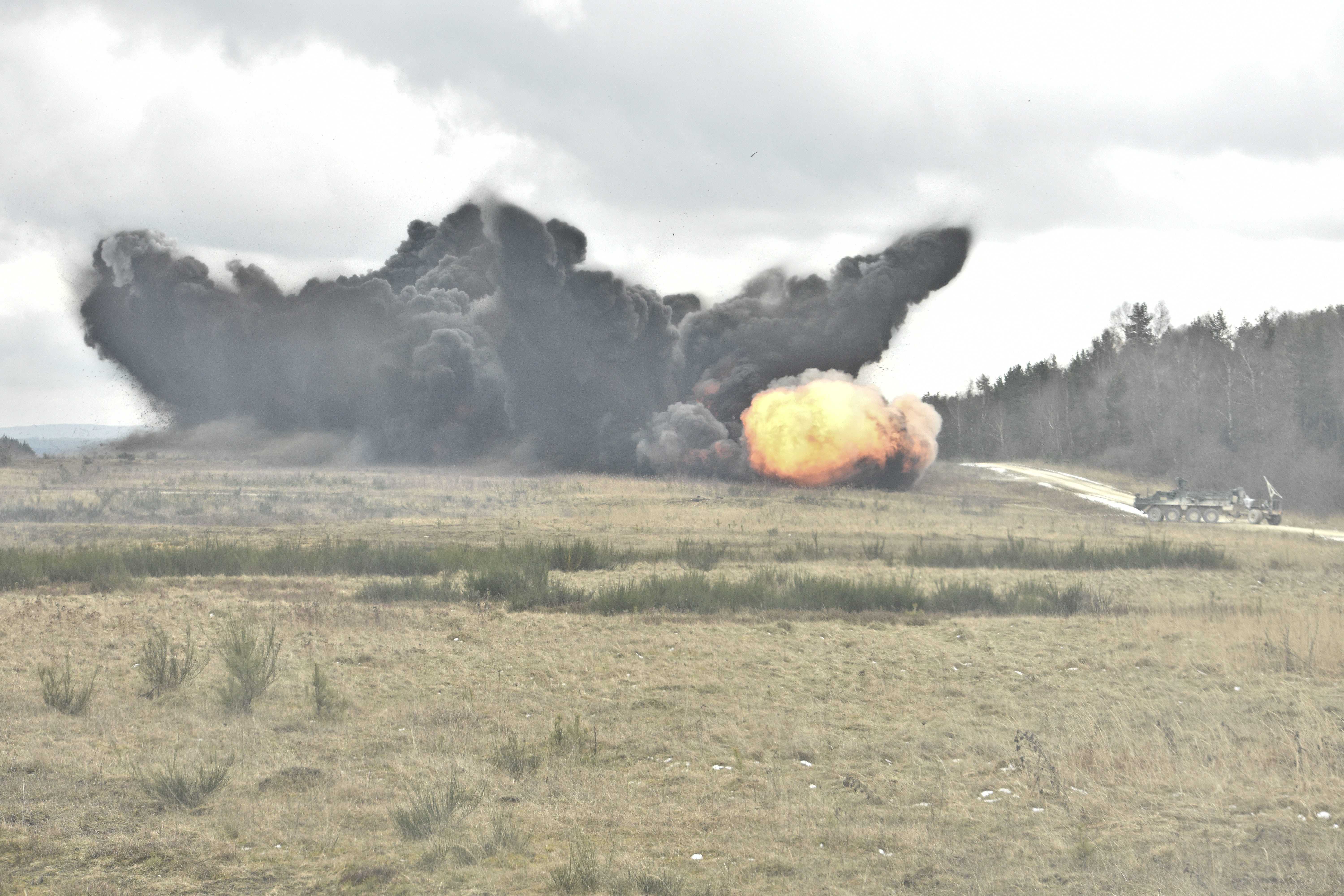 Troopers assigned to Alpha Troop, Regimental Engineer Squadron, 2nd Cavalry Regiment, detonate a rocket with a chain of C4 charges fired from their Mine Clearing Line Charge device during their unit's MCLC range at Grafenwoehr Training Area, located near Rose Barracks, Germany, March 2-3, 2016. The purpose of the range was to help Troopers, along with their British counterparts from the 22nd Engineer Regiment, British Army, familiarize themselves with the placement, launch and detonation of the system while ensuring readiness for follow on operations. (U.S. Army photo by Sgt. William A. Tanner) Unit: 2nd Cavalry Regiment